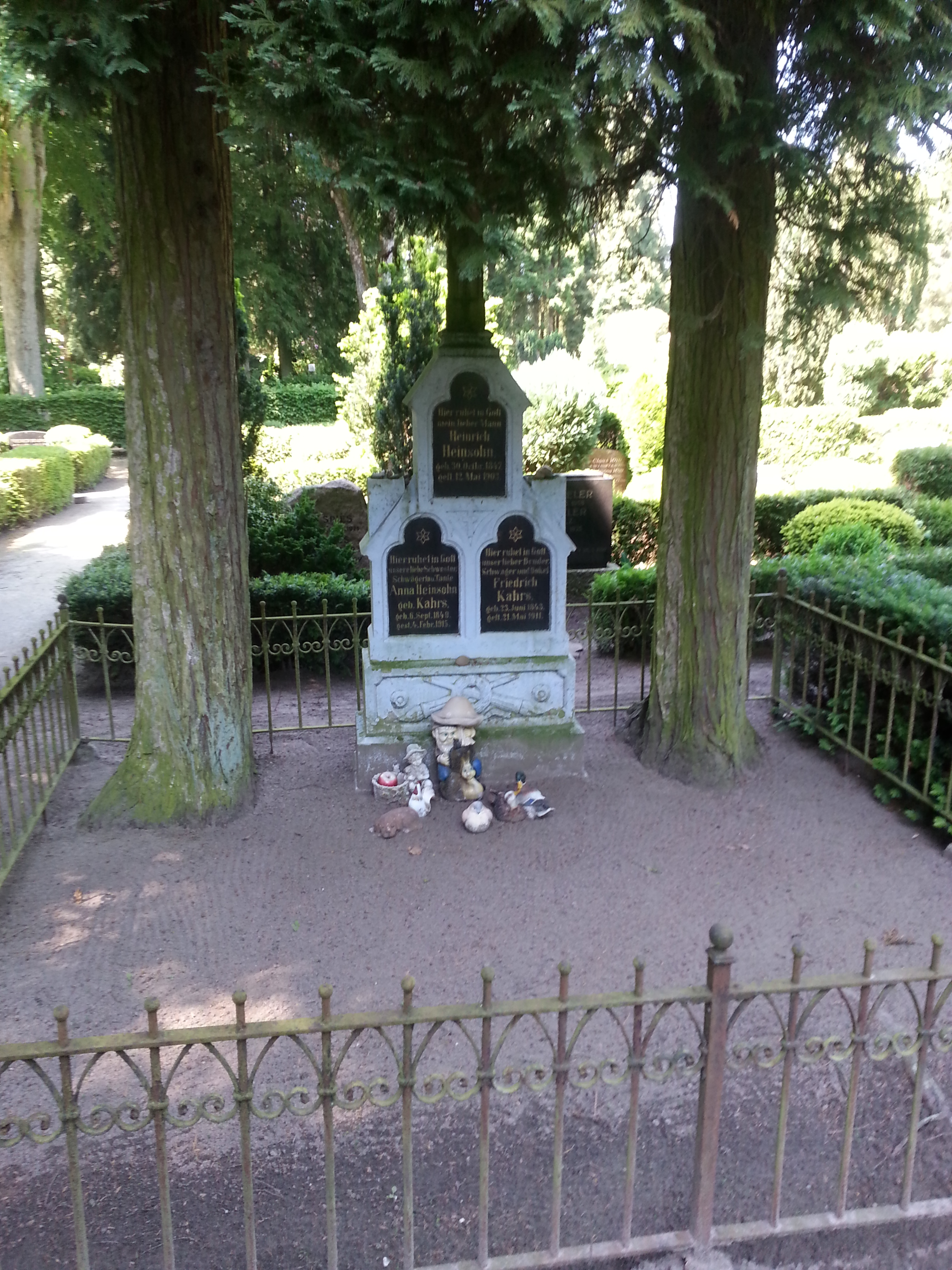 The Horstfriedhof (also known as Friedhof auf der Horst; i.e. cemetery on the Horst hill) is a Lutheran cemetery established in 1789 and run by the federation of the five Lutheran congregations in Stade, Lower Saxony, Germany